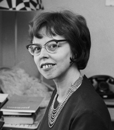 Photograph of the Finnish writer and translator Aila Meriluoto (1924–2019) at a typewriter.